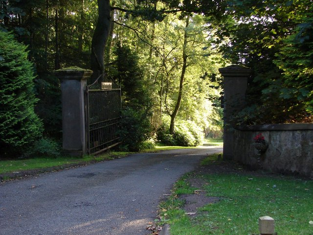 Entrance gate to Lee Castle One of the entrance gates to Lee Castle grounds from the A73 side.